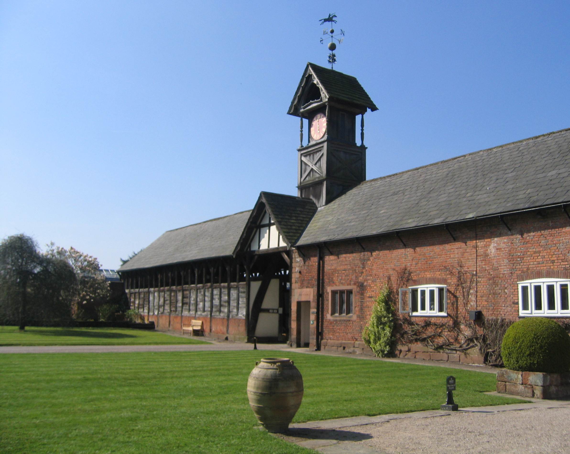 Photograph taken by me on 7 April 2007.